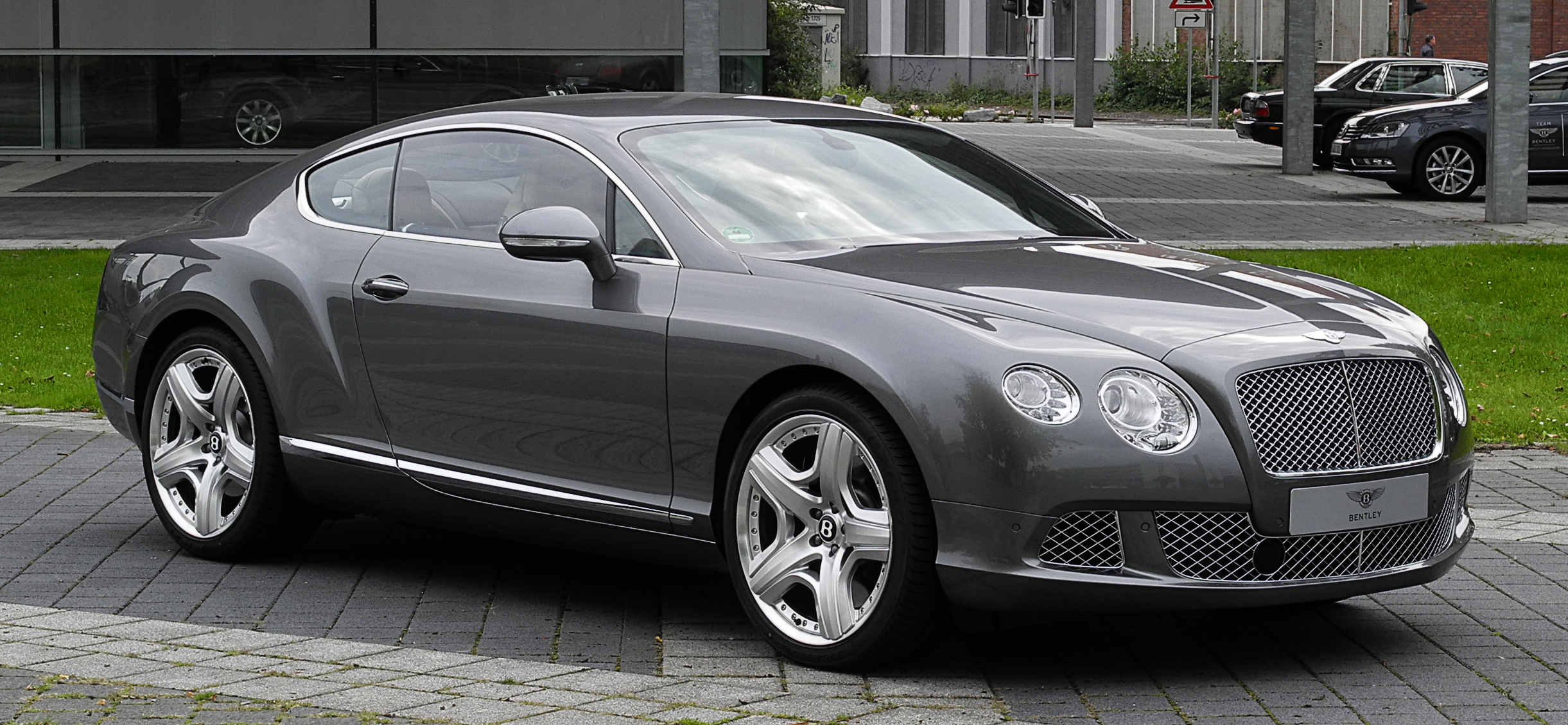 Bentley Continental GT (II)